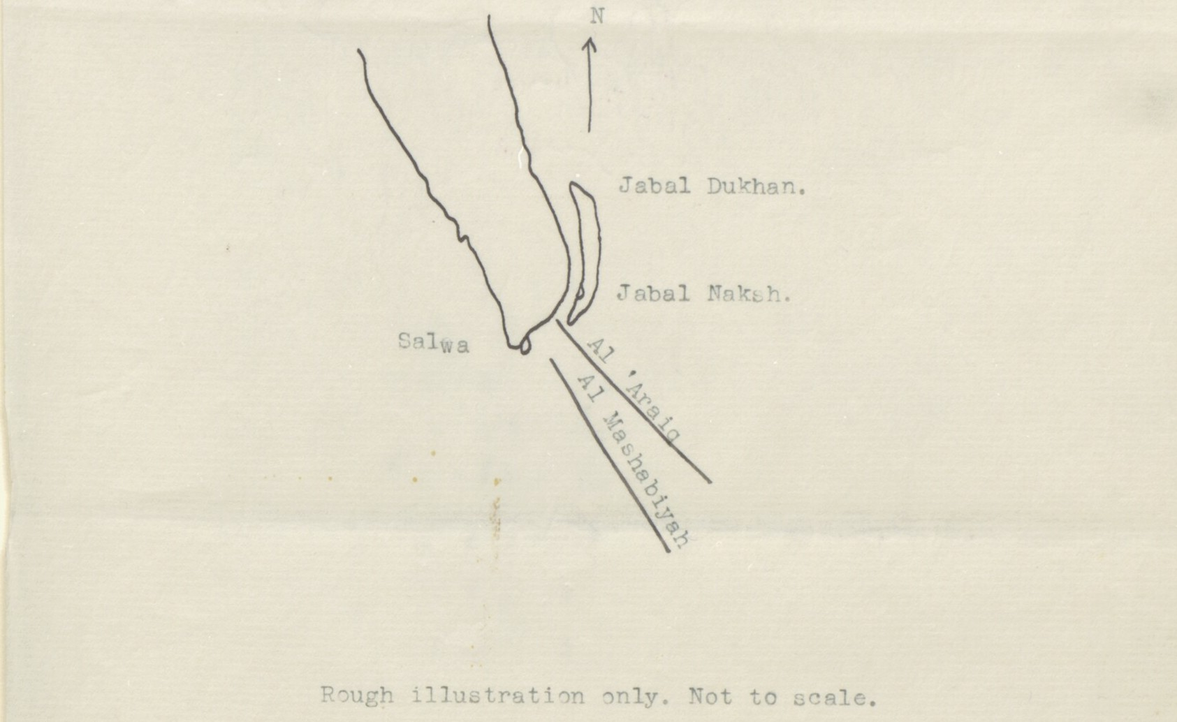 Rough sketch map drawn in 1936 showing Jebel Nakhsh and other features such as Jebel Dukhan and Salwa (KSA).